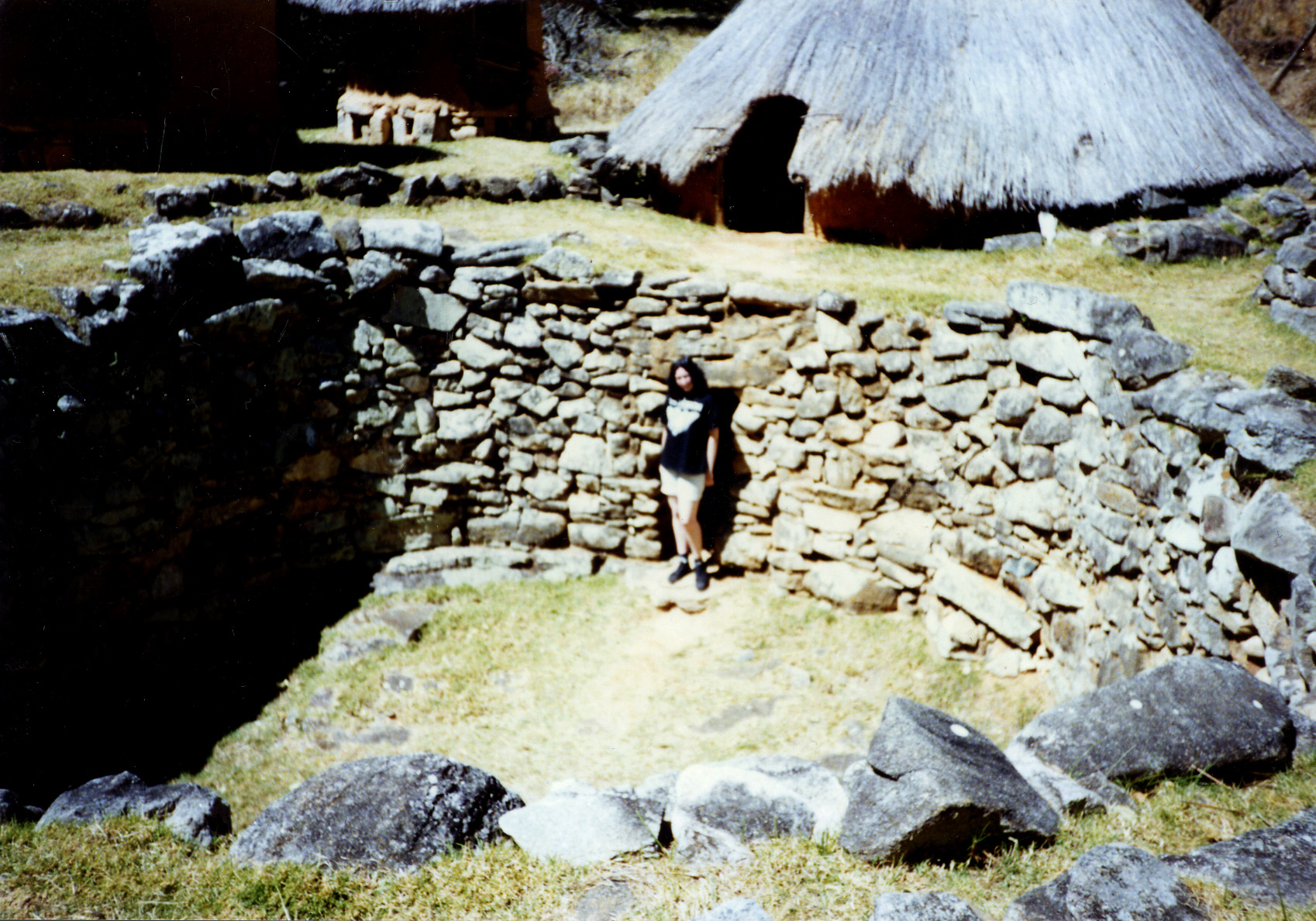 Reconstructed pit structure near Rhodes Dam, Nyanga National Park, , probably used as a cattle pen. Not used as a slave pit, nor as a gold ore slurry tank.